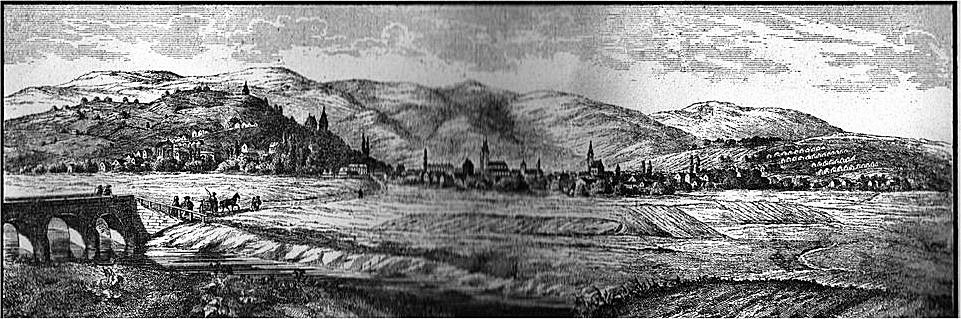 Avas Hill (old picture from 1853), Miskolc, Hungary